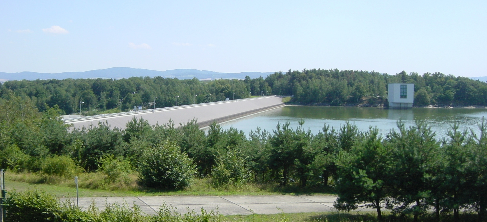 Dam of Bautzen Lake, Saxony, germany